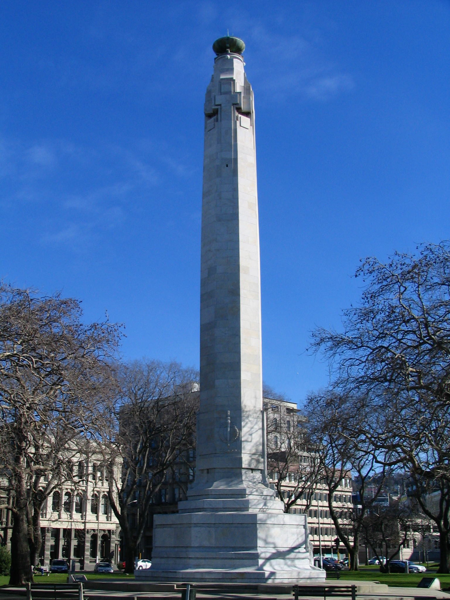 Cenotaph in Queens Gardens, Dunedin, New Zealand, looking south west